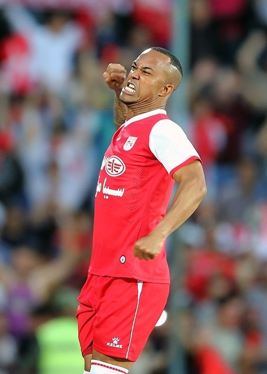 Edinho celebrating after scoring goal for Tractor Sazi against Esteghlal, Azadi Stadium